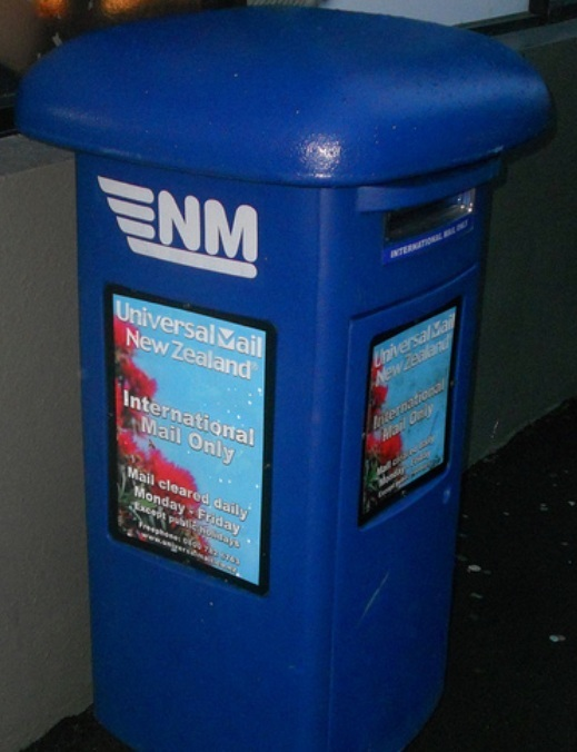 New Zealand internaltional pick-up mail box